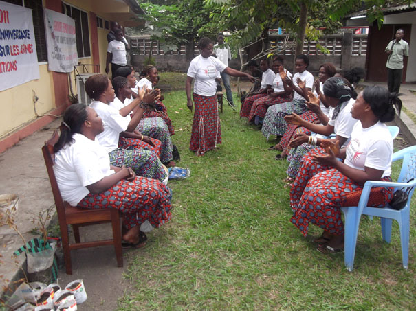 There was a sport demonstration of the sport “Nzango” which is a popular local game played by women and was played by number of women including those with disabilities. Democratic Republic of the Congo. Photo credit: Francky Miantuala